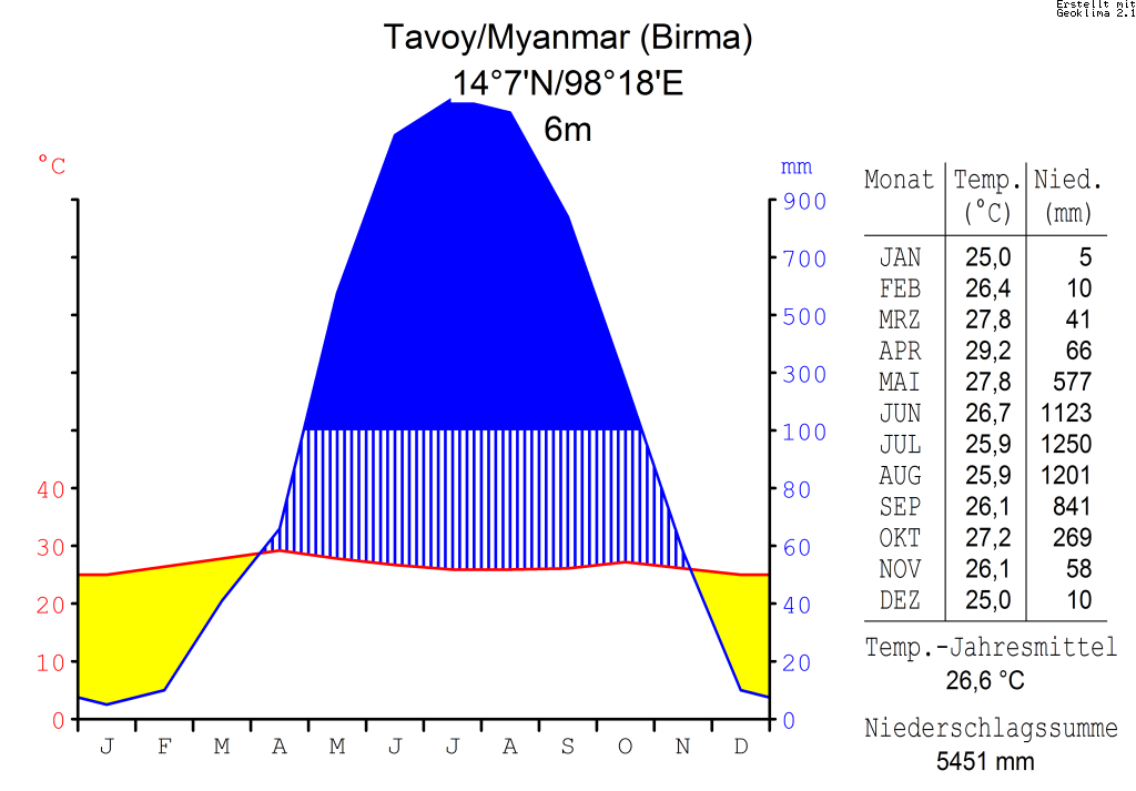 climate chart in the format by Walther and Lieth, metric, °Celsisus and millimeters, made with Geoklima 2.1